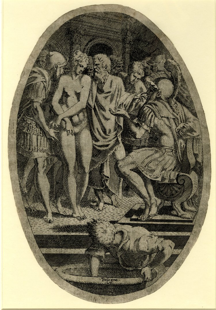 British Museum Soldiers bringing Timoclea, naked, before Alexander the great, enthroned in the foreground; within oval. c.1541/45 Etching by: Léon Davent After: Francesco Primaticcio Height: 341 millimetres (trimmed) Width: 231 millimetres Zerner 1969 LD.52 Bartsch XVI.313.11